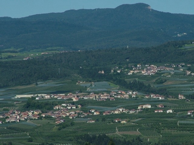 Panorama of the villages of Banco and Casez (of the municipality of Sanzeno), and of the village of Malgolo (of the municipality of Romeno), seen from south-west.